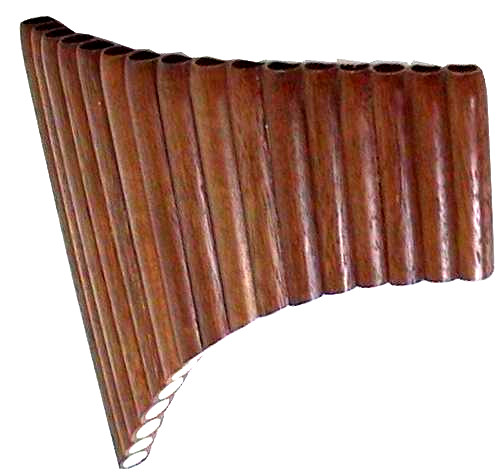 Rumanian pan flute